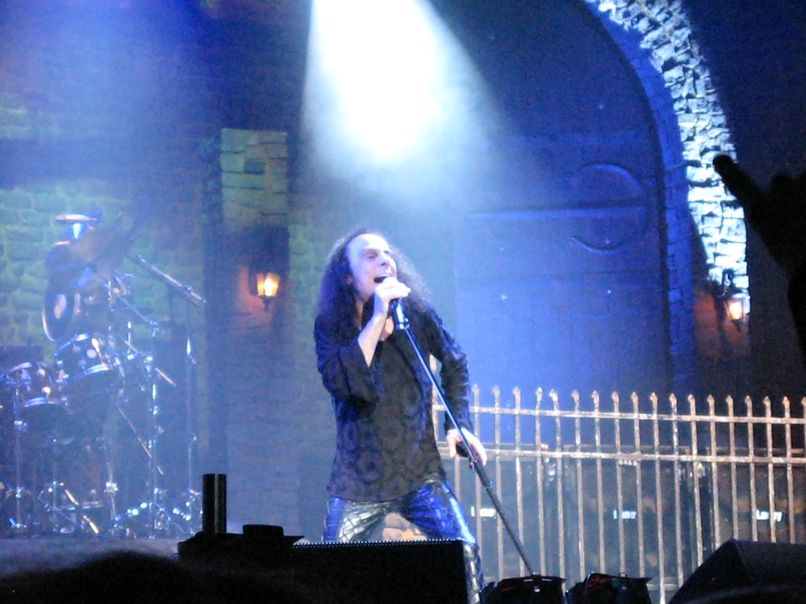 Ronnie James Dio, Heaven And Hell at the NEC, 2007-11-13.